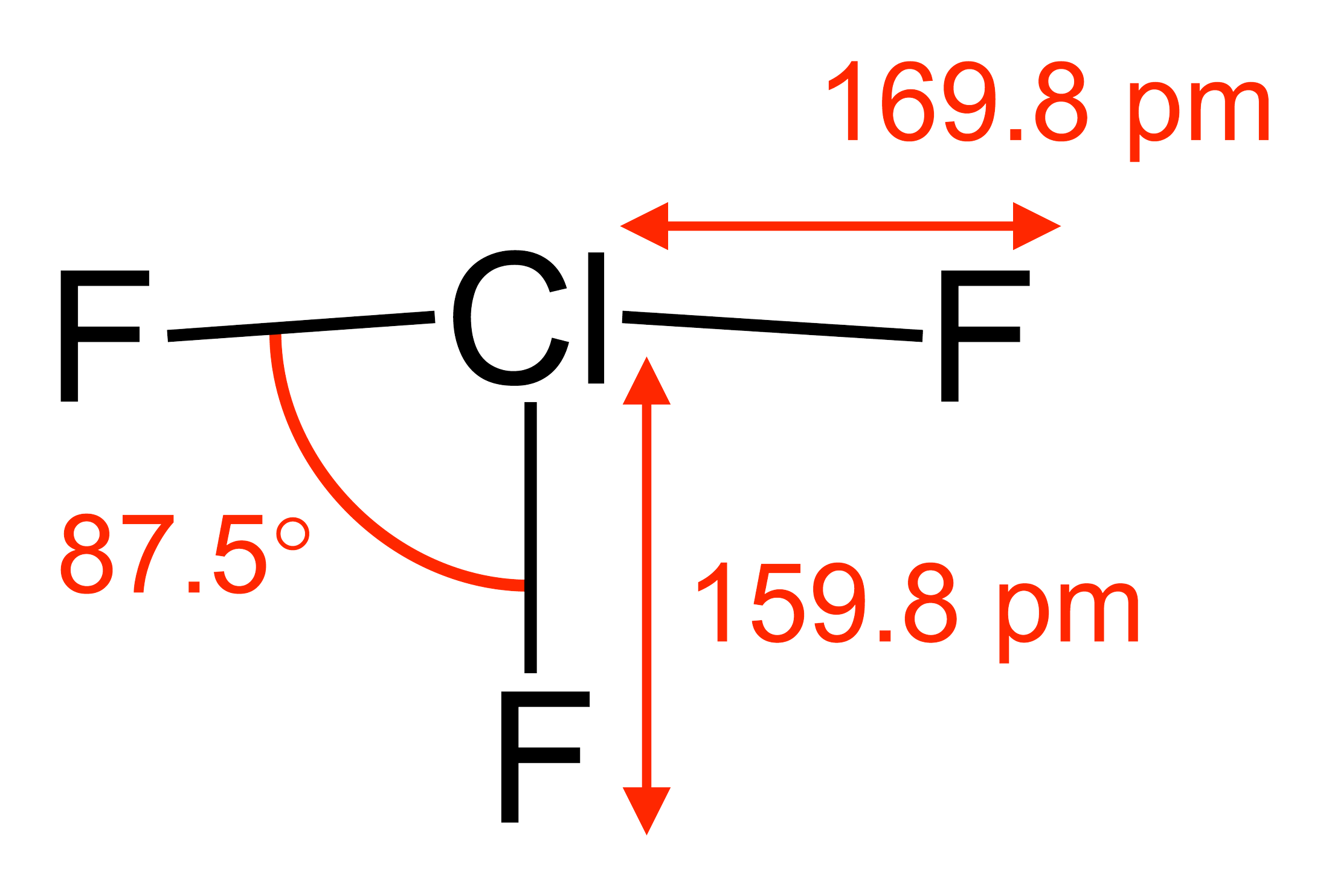 Structure and dimensions of the chlorine trifluoride molecule, ClF3, as determined by microwave spectroscopy. Based on the diagram on page 829 of Greenwood, N. N.; Earnshaw, A. (1997) Chemistry of the Elements (2nd ed.), Oxford:Butterworth-Heinemann ISBN: 0-7506-3365-4. (Google Books link) Structure drawn in ChemBioDraw Ultra 12.0.